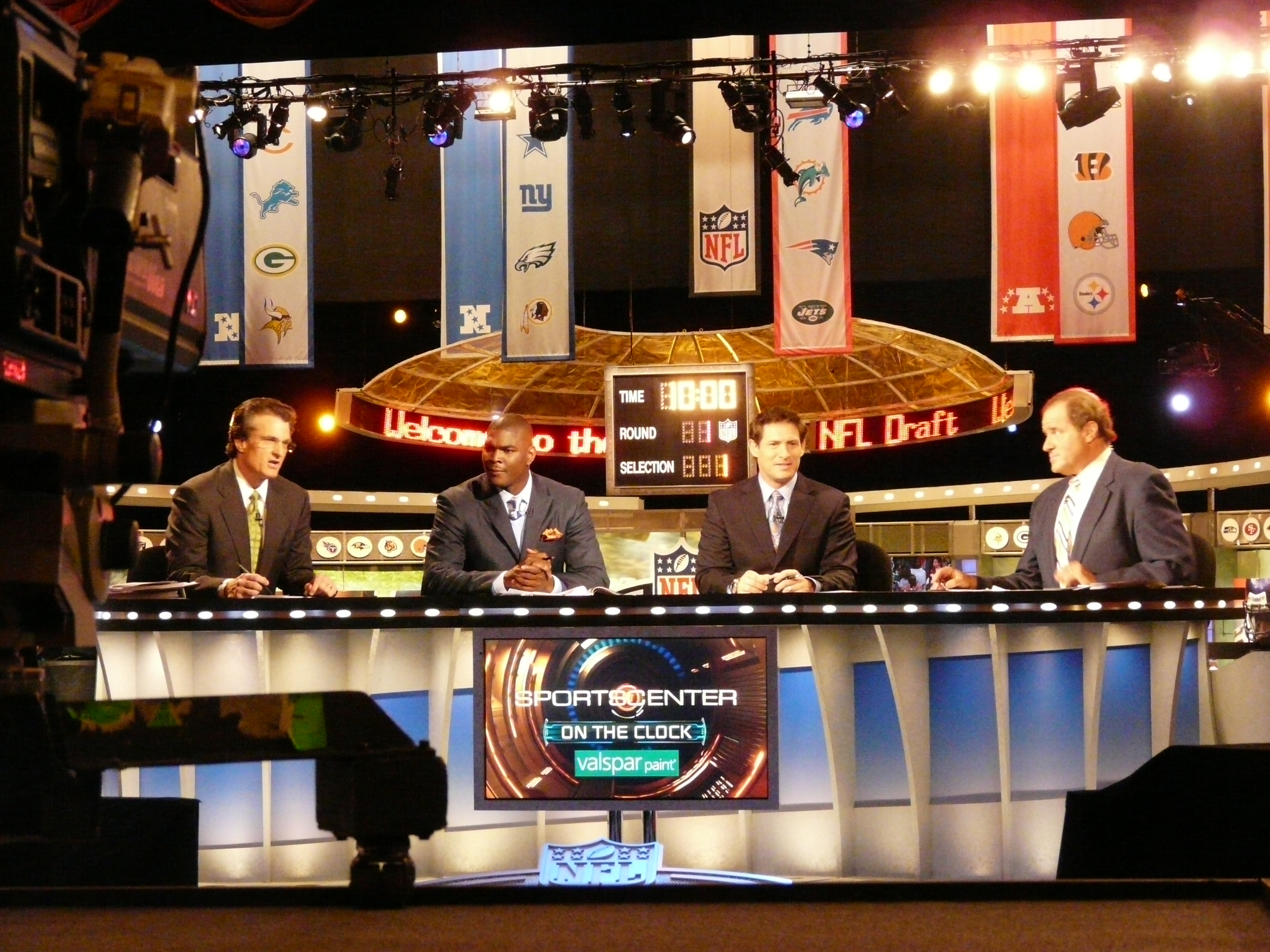 ESPN's broadcast set for the 2009 National Football League Draft. From left to right, Mel Kiper Jr., Keyshawn Johnson, Steve Young, and Chris Berman.